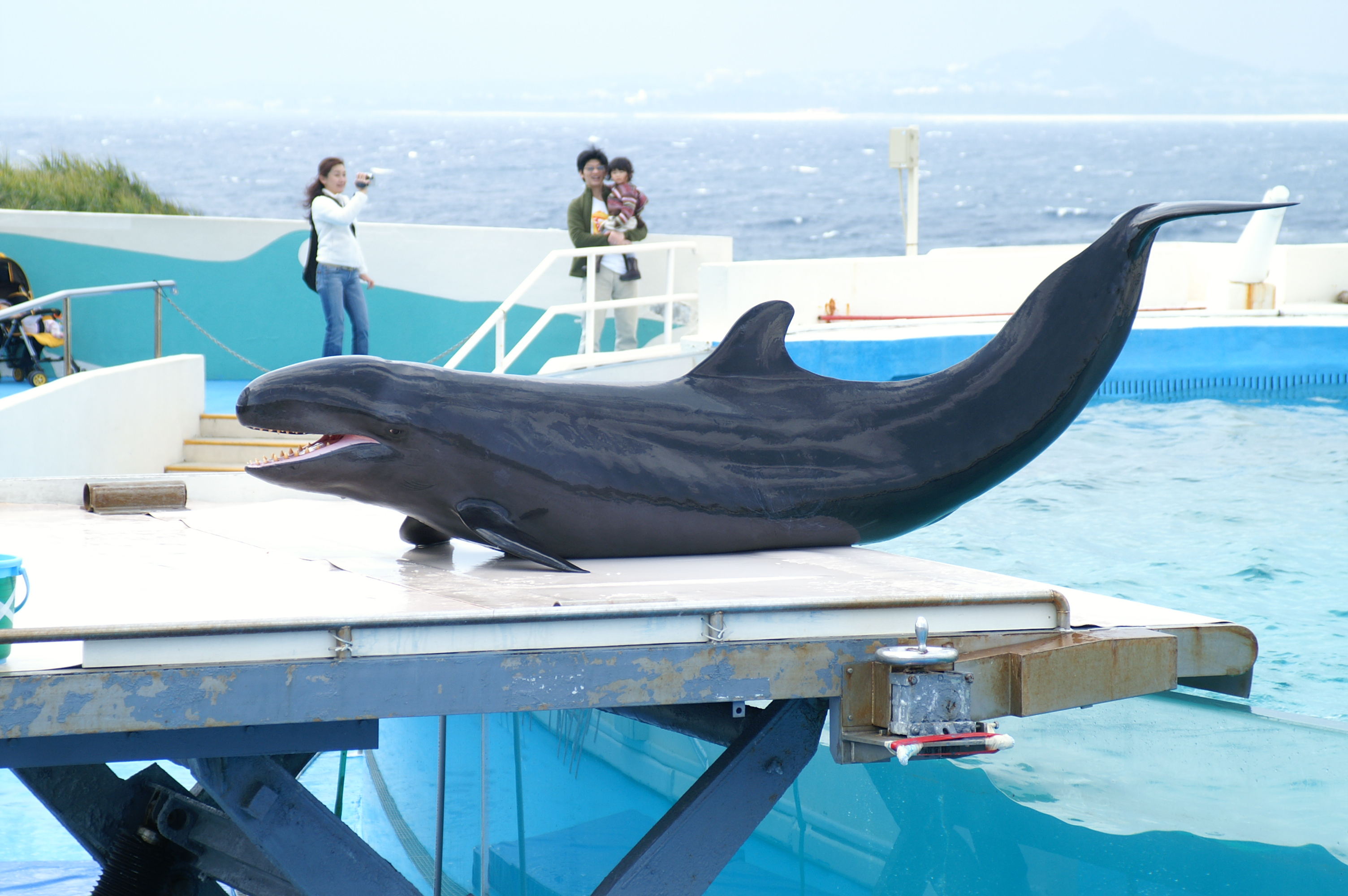 Pseudorca crassidens at the Okichan Theater in the Ocean Expo Park